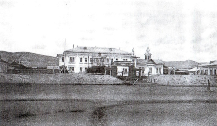 Consulate of the Russian Empire in Urgoo (modern day Ulaan Baatar)